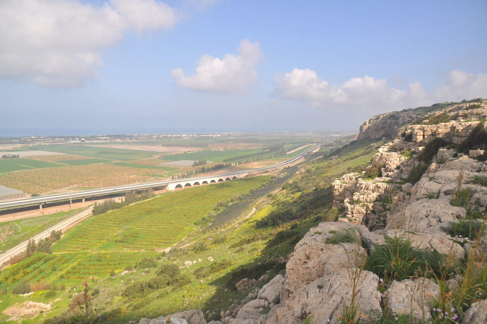 Geography of Israel